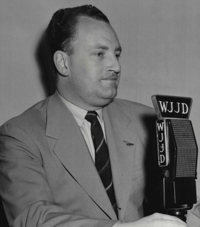 Publicity photo of broadcaster Bert Wilson.